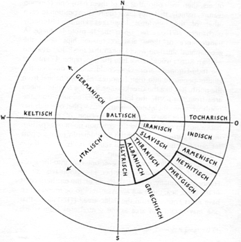 Scheme of Indoeuropean languages by Wolfgang P. Schmid